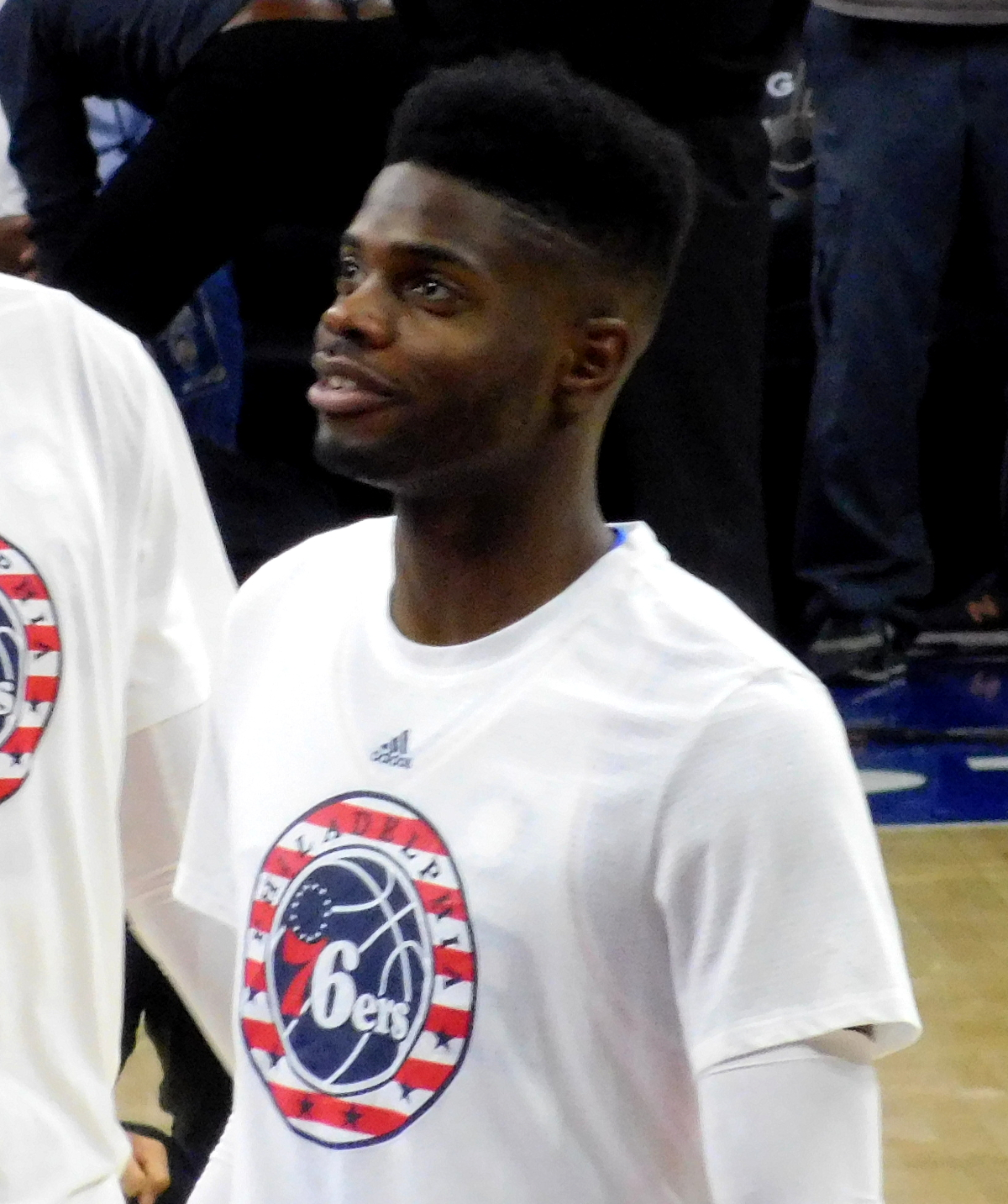 Nerlens Noel of the NBA's Philadelphia 76ers during pregame warm-ups prior to a match-up against the Orlando Magic.